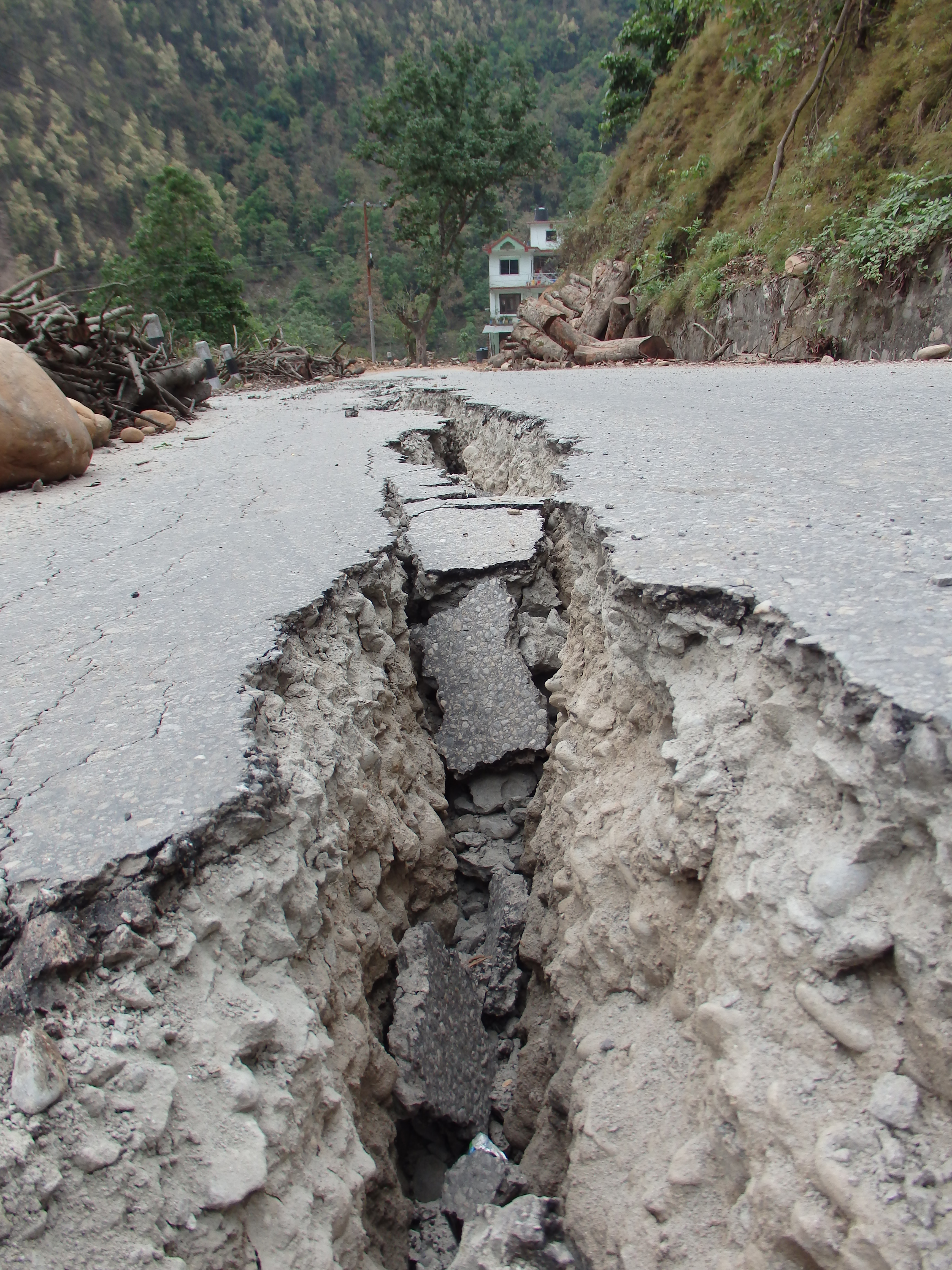 Big Crack